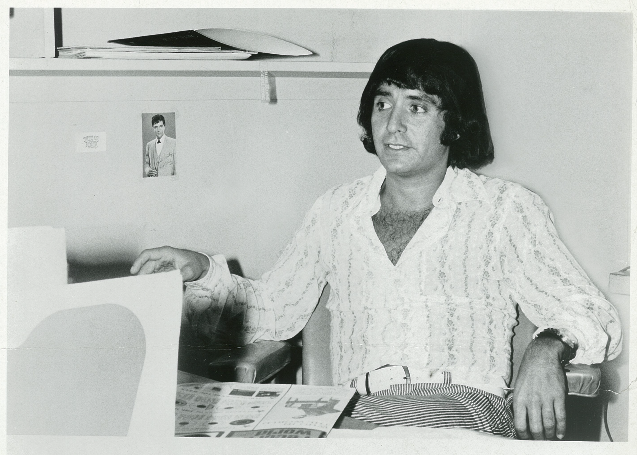 Harvey Averne, New York record producer, president of Coco Records